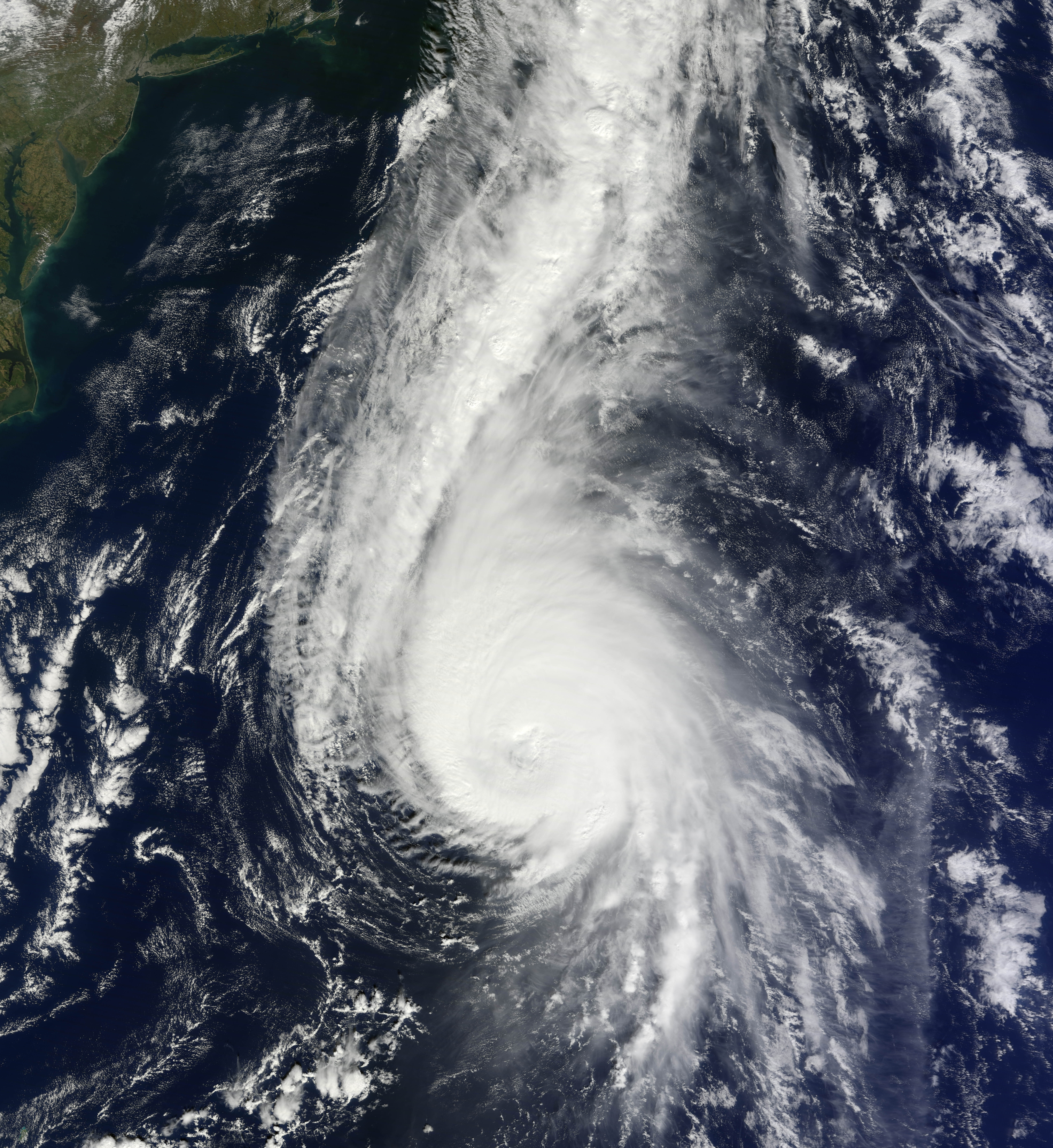 The Moderate Resolution Imaging Spectroradiometer (MODIS) on NASA’s Terra satellite acquired this natural-color image of Hurricane Gonzalo at 11:15 a.m. Atlantic Daylight Time (1515 Universal Time) on October 17, 2014. At the time, the category 3 hurricane had sustained winds of 110 knots (125 miles or 205 kilometers per hour) and a central pressure of 947 millibars. In the image, Bermuda is hidden under clouds, but the coast of North Carolina is visible in the far upper left.